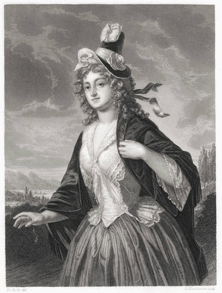 Portrait of a young Charlotte von Lengefeld (in late 1780s clothing styles), steel engraving by Andreas Fleischmann after Friedrich Pecht